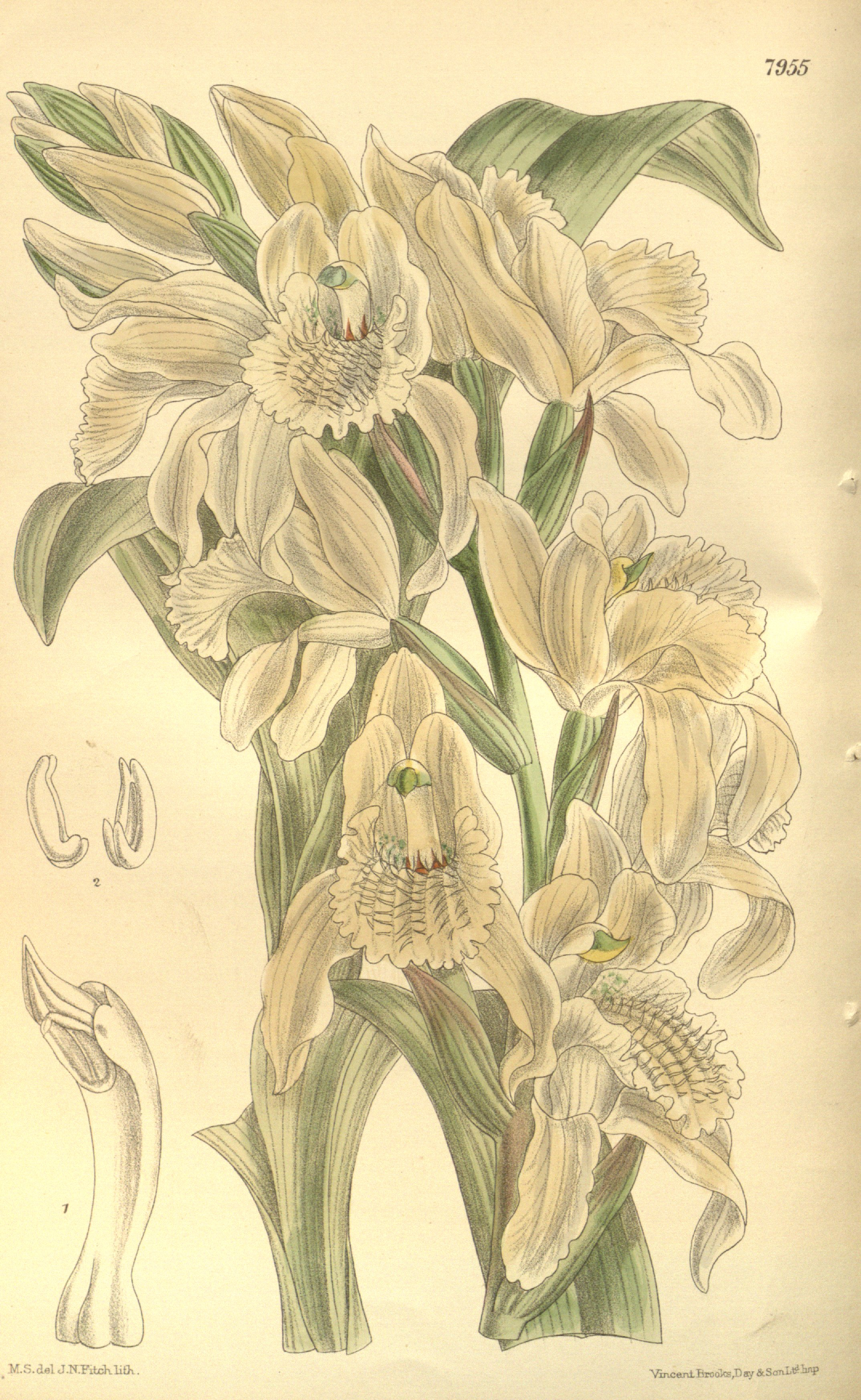 Illustration of Chloraea crispa